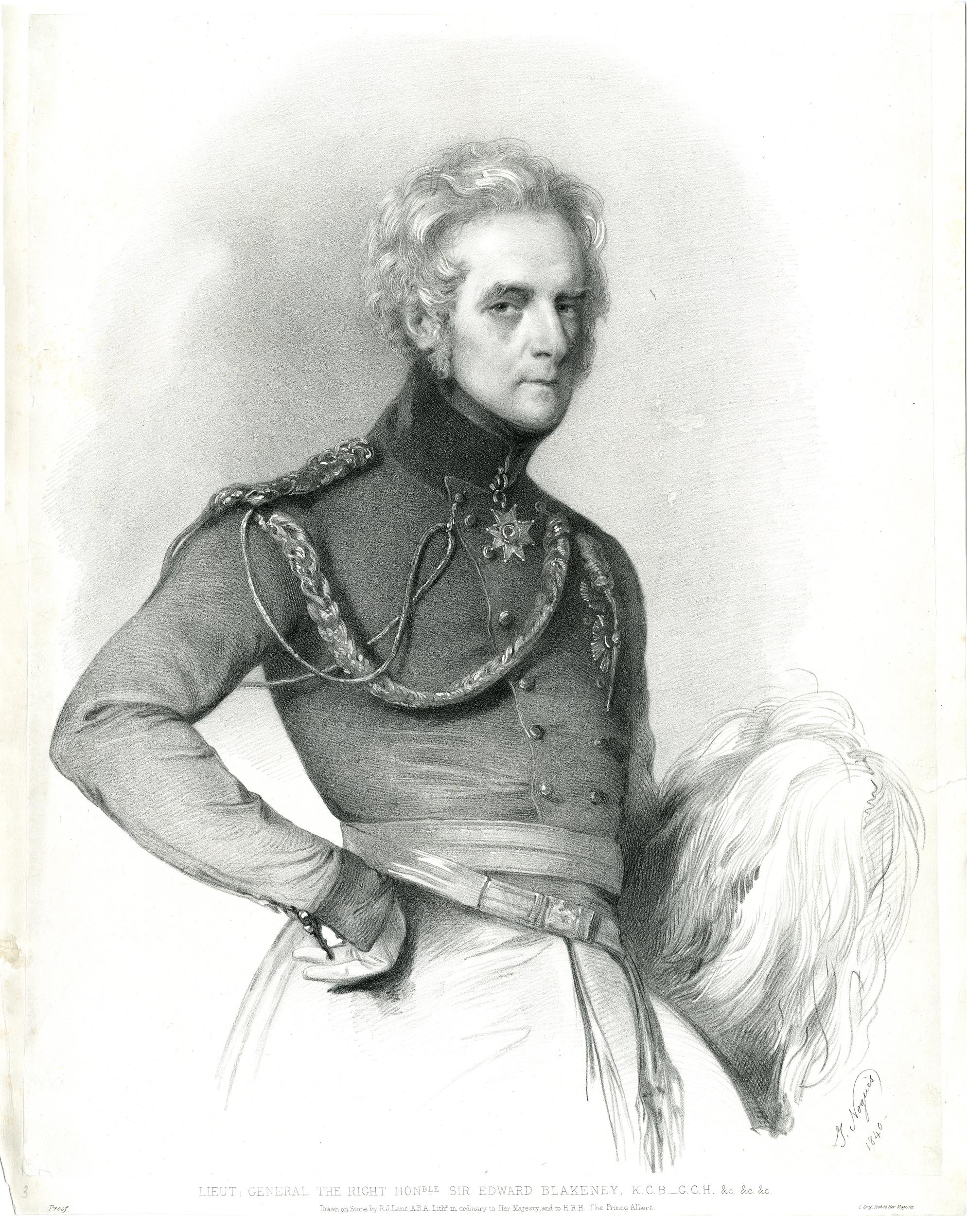 Portrait of Sir Edward Blakeney, three-quarter-length, slightly turned to the right, one hand on his hip and his plumed bicorne in the other, dressed in military uniform, a sash and sword-belt about his waist, an epaulette and aiguillette on his shoulder, the star of an order hanging at his neck and others pinned to his breast, proof Lithograph